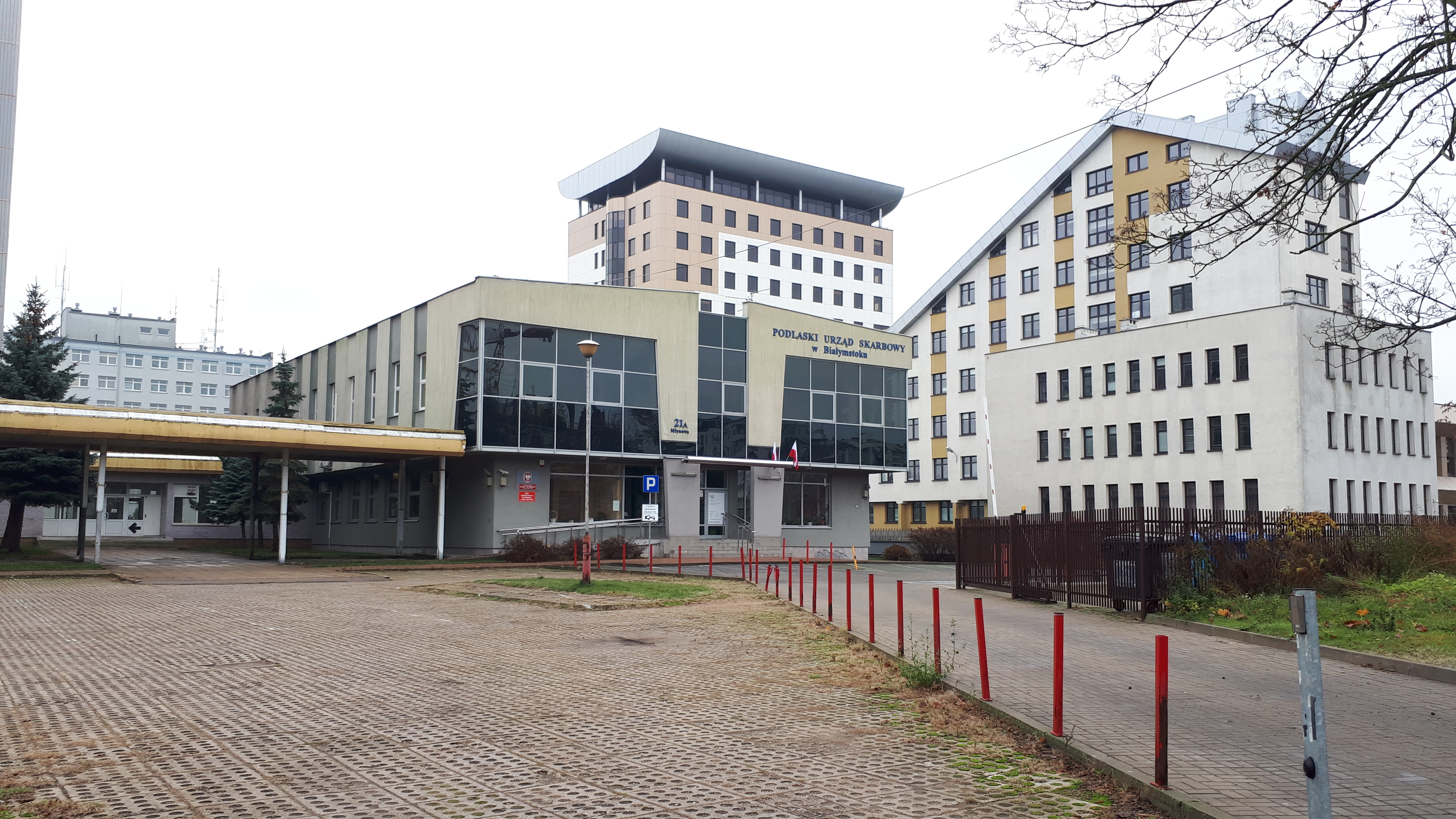 Podlaski Tax Office in Bialystok, 21A Młynowa Street